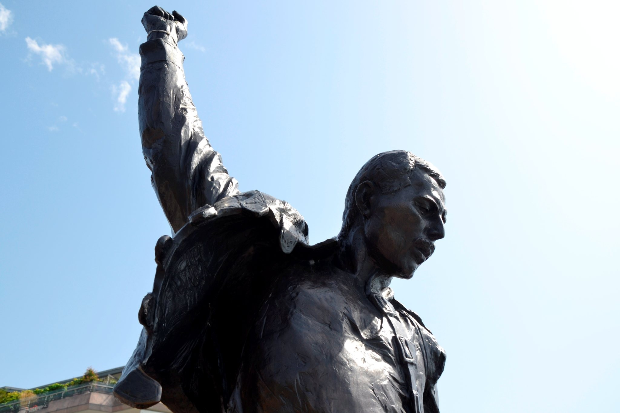 Statue of Freddie Mercury in Montreux.